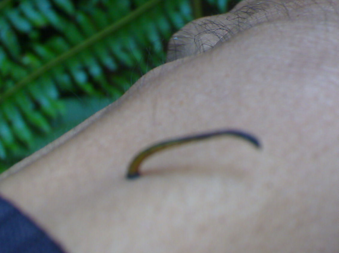 Cibeet leech is the bigger leech in Indonesia.